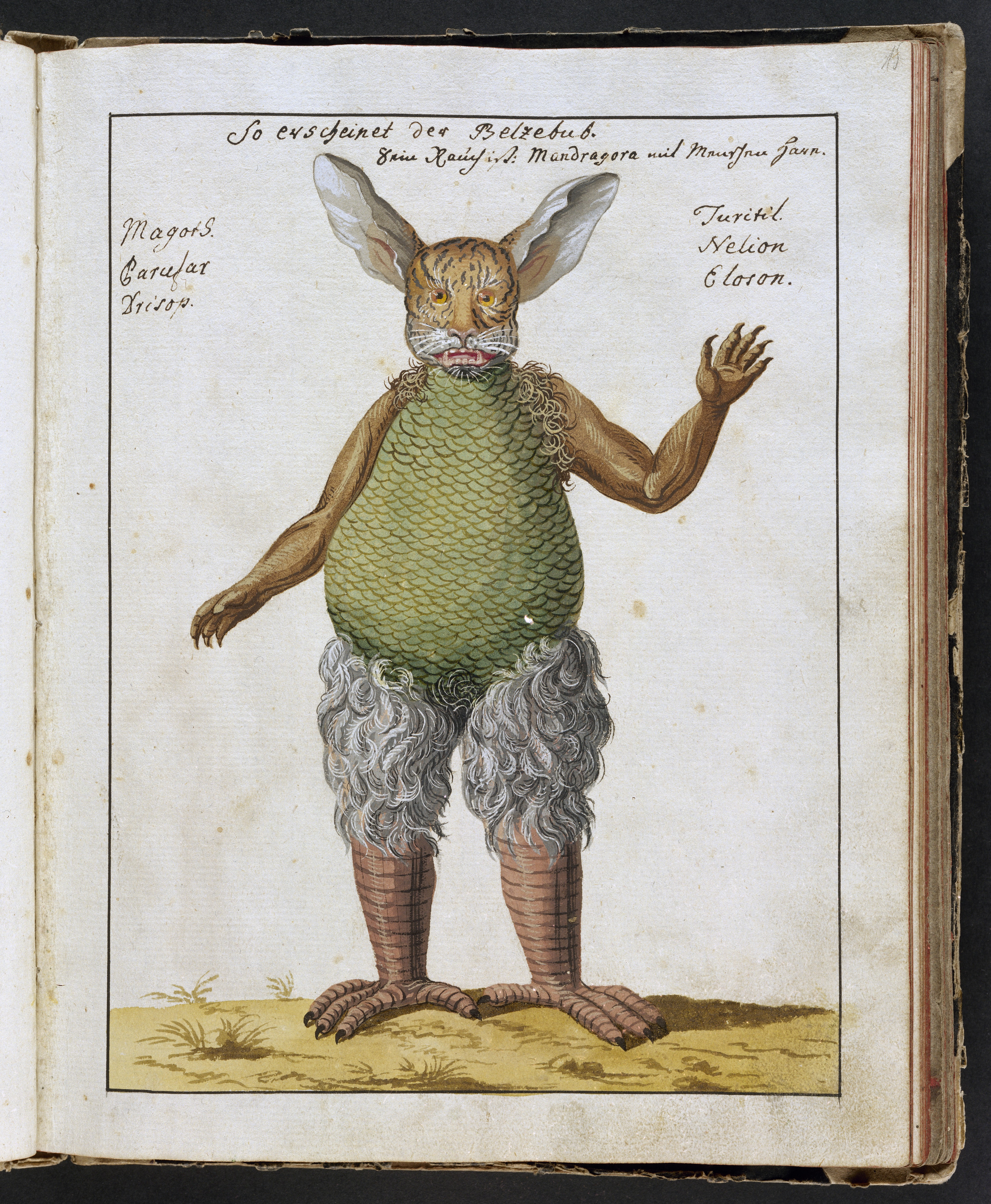 Beelzebub - portrayed with rabbit ears, a tiger's face, scaled body, clawed fingers and bird's legs. Archives & Manuscripts Keywords: Animal; Creature; Demon; Demonology; Devil; Hybrid; Illustration; Monsters; Magic